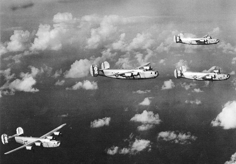 Formation of 90th Bombardment Group B-24Ds over the south pacific, 1943